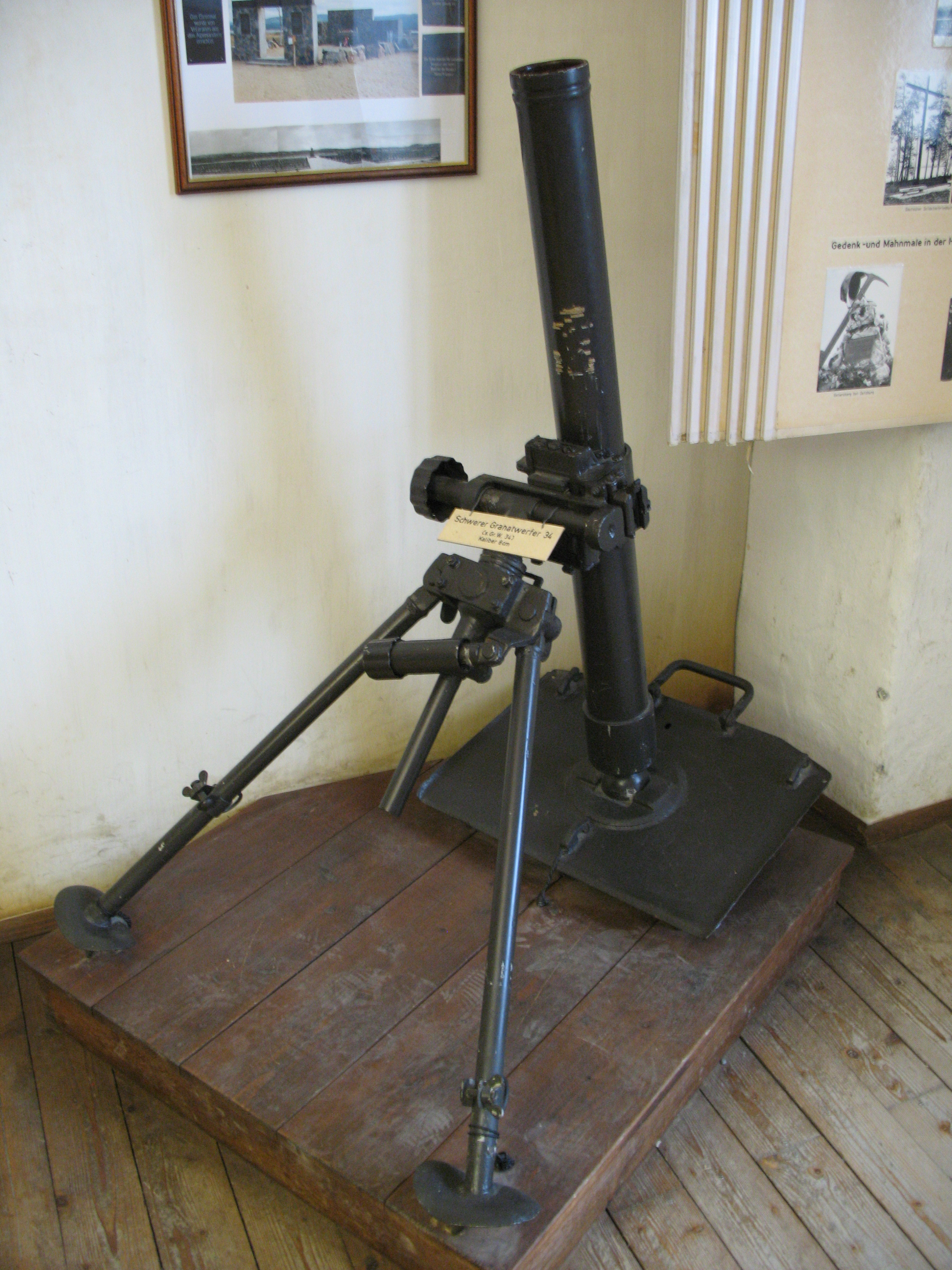 8 cm Mortar; High Fortress, Salzburg, Austria